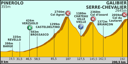 Profil of the 18th stage of the Tour de France 2011